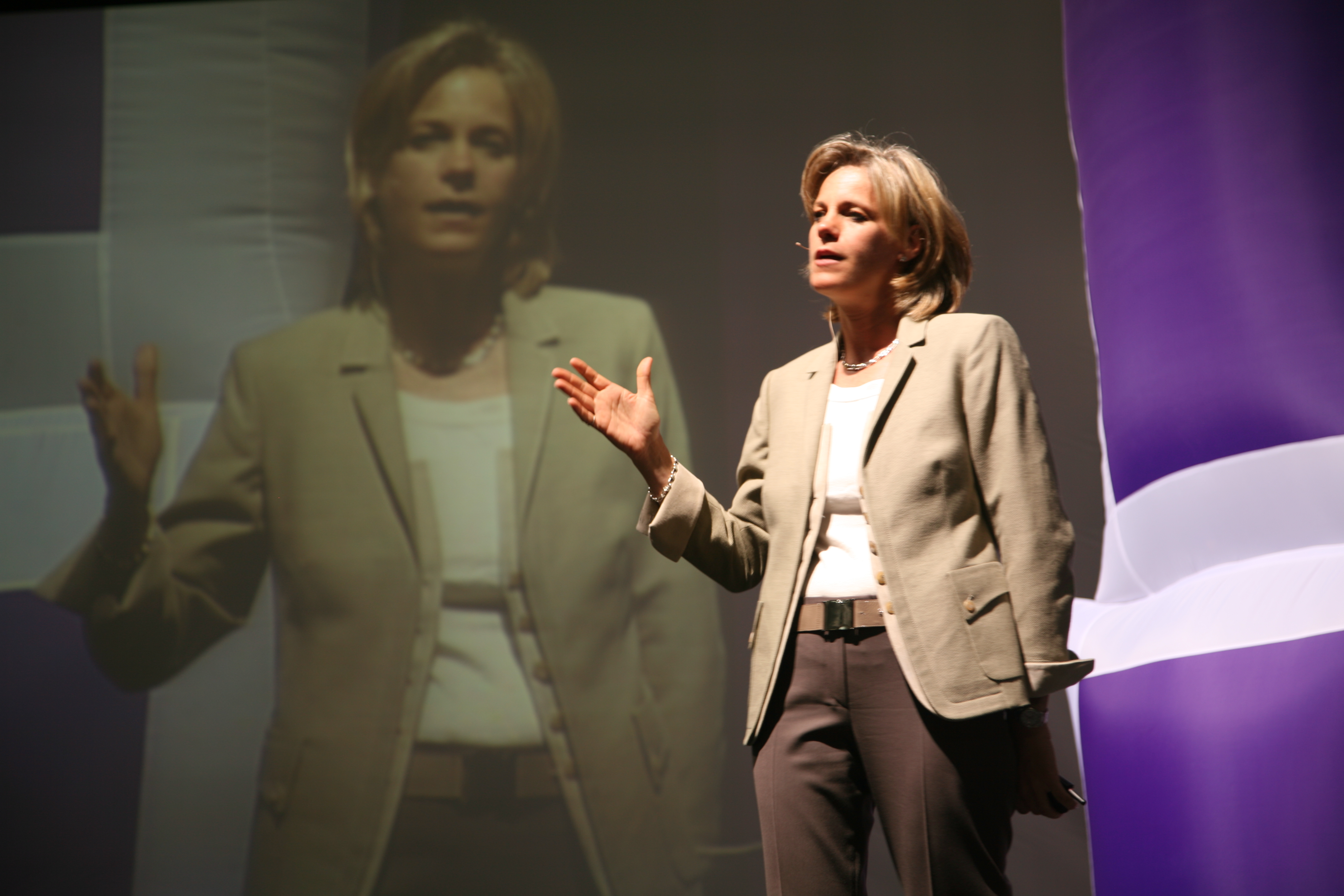 American businesswoman Susan Decker, president of Yahoo!, at employee all hands meeting in Sunnyvale, California.